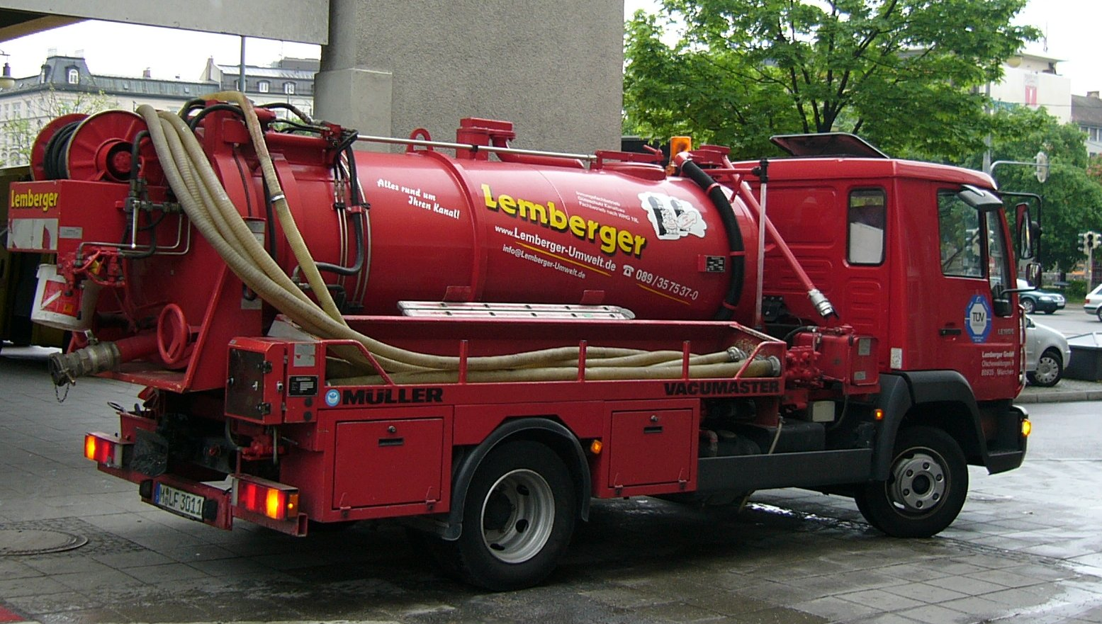 Sewage Collection truck.